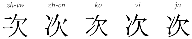 Left to right, 次 in Traditional Chinese characters (Taiwan), Simplified Chinese characters (Mainland China), Korean Hanja, Vietnamese Chuhan, and Japanese Kanji.